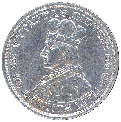 10 Lithuanian litas (Aversum). Grand Duke of Lithuania Vytautas. Lithuania. Year: 1936. Silver (750). Diameter: 32.2 (mm). Weight: 18.00 (g). Gurt: 2.5 (mm), text: TAUTOS JĖGA VIENYBĖJE.